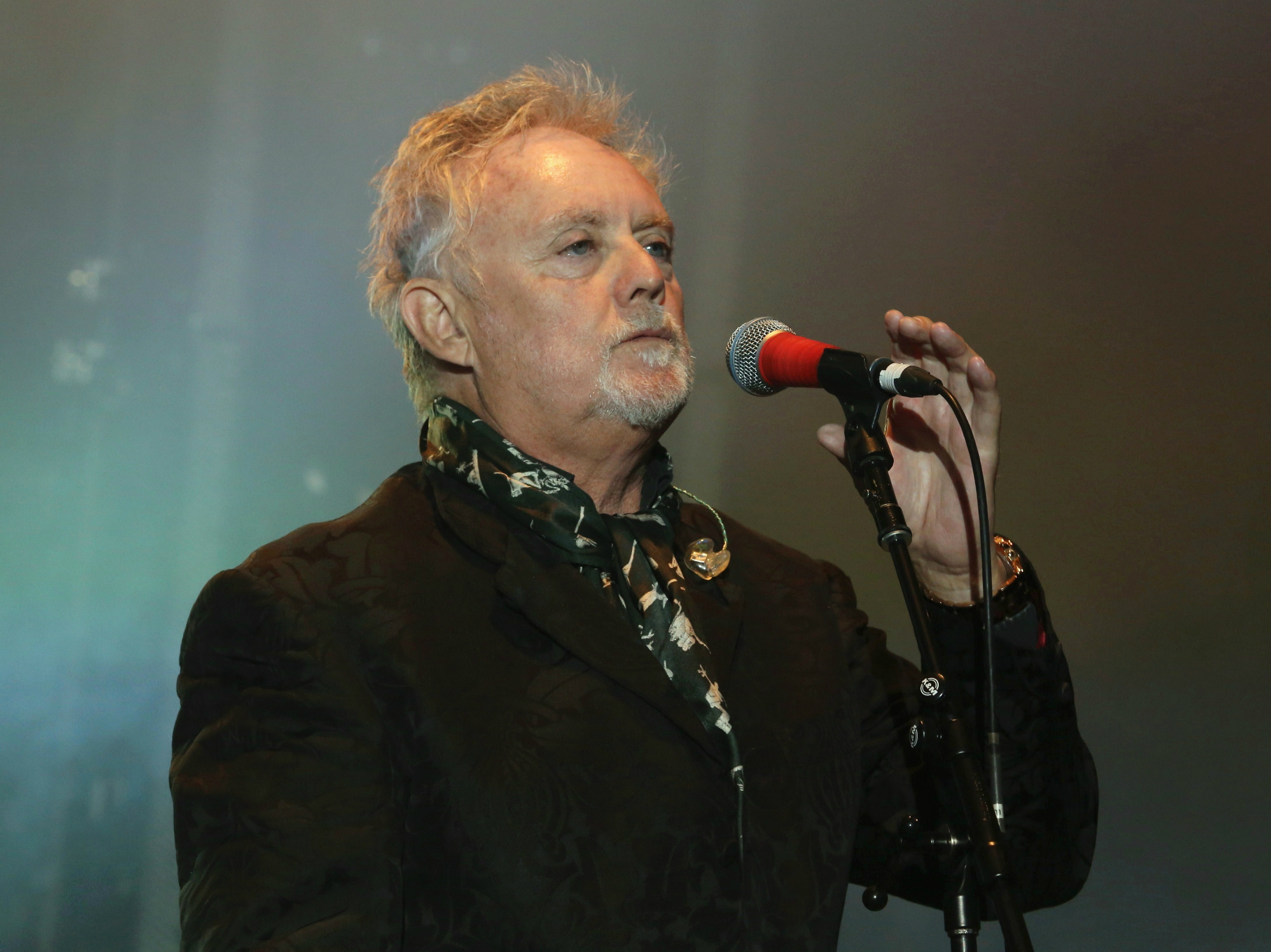 Roger Taylor, an English musician, multi-instrumentalist, singer, songwriter, the drummer of the band Queen.